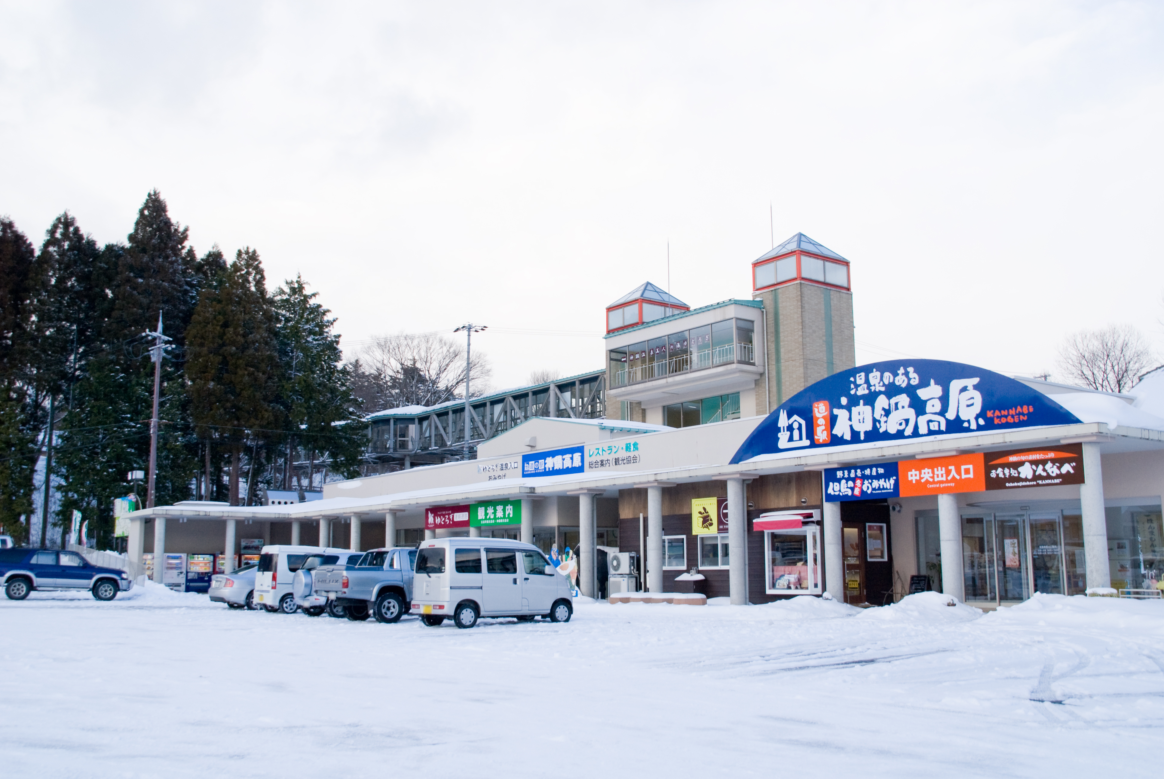 Michinoeki Kannabe Kogen and Kannabe Hot Spring Kannabe Yunomori Yutorogi in Toyooka City, Hyogo Prefecture, Japan